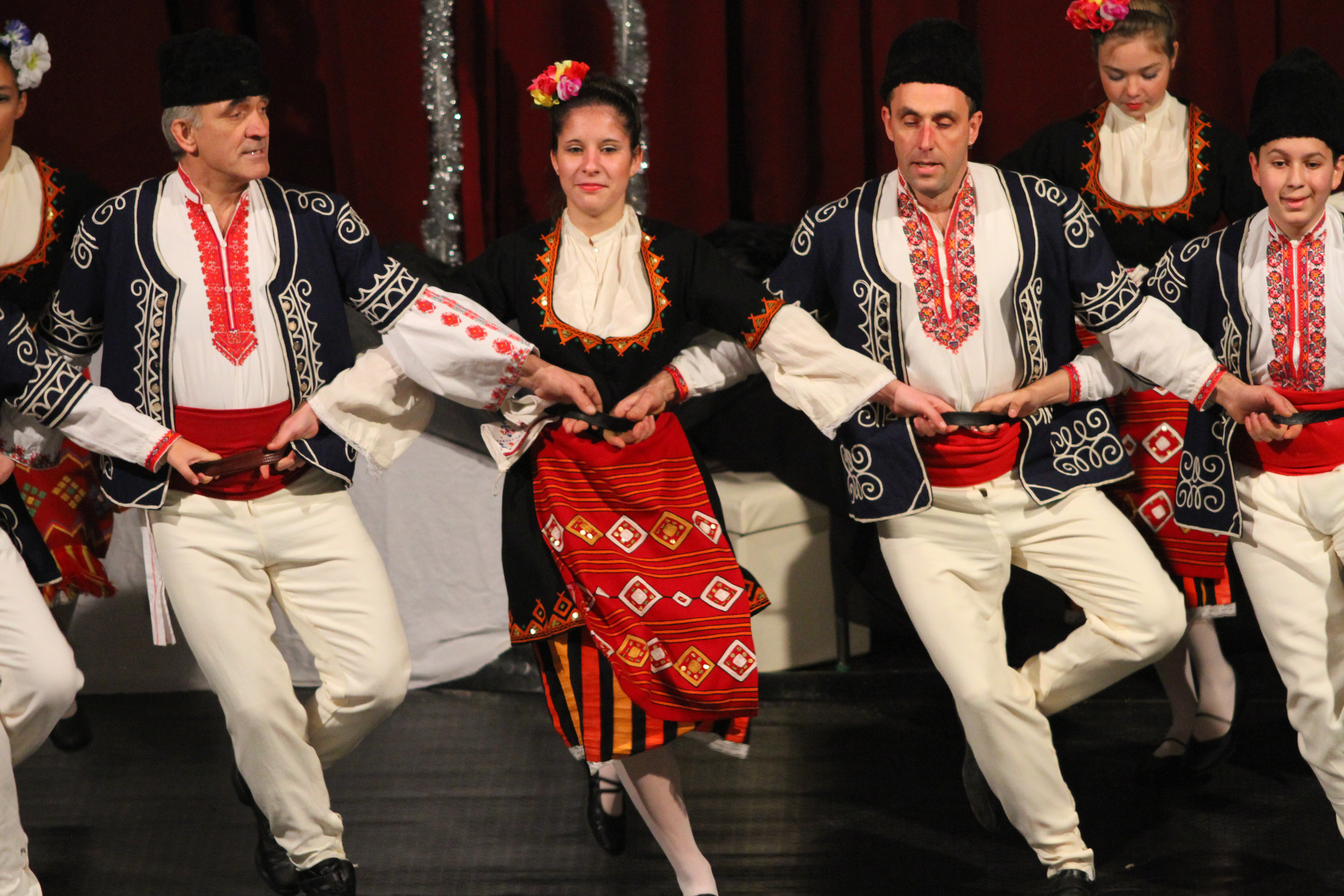 Bulgarian folk dance, Shopski folklore region. This photo has been taken in the country: Bulgaria